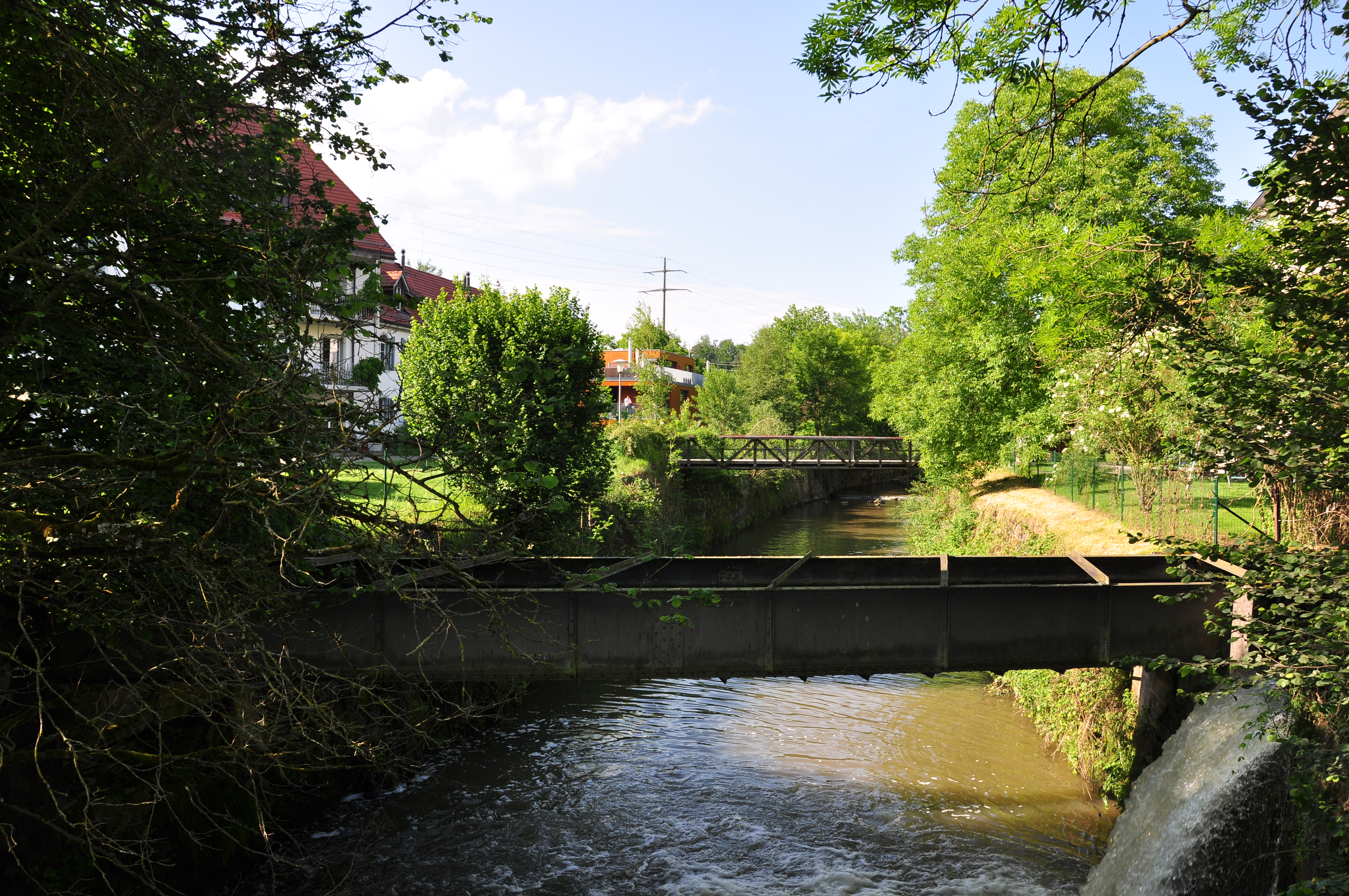 Stadtbach canal towards Rapperswil (to the left) crossing Jona river in Jona (SG)